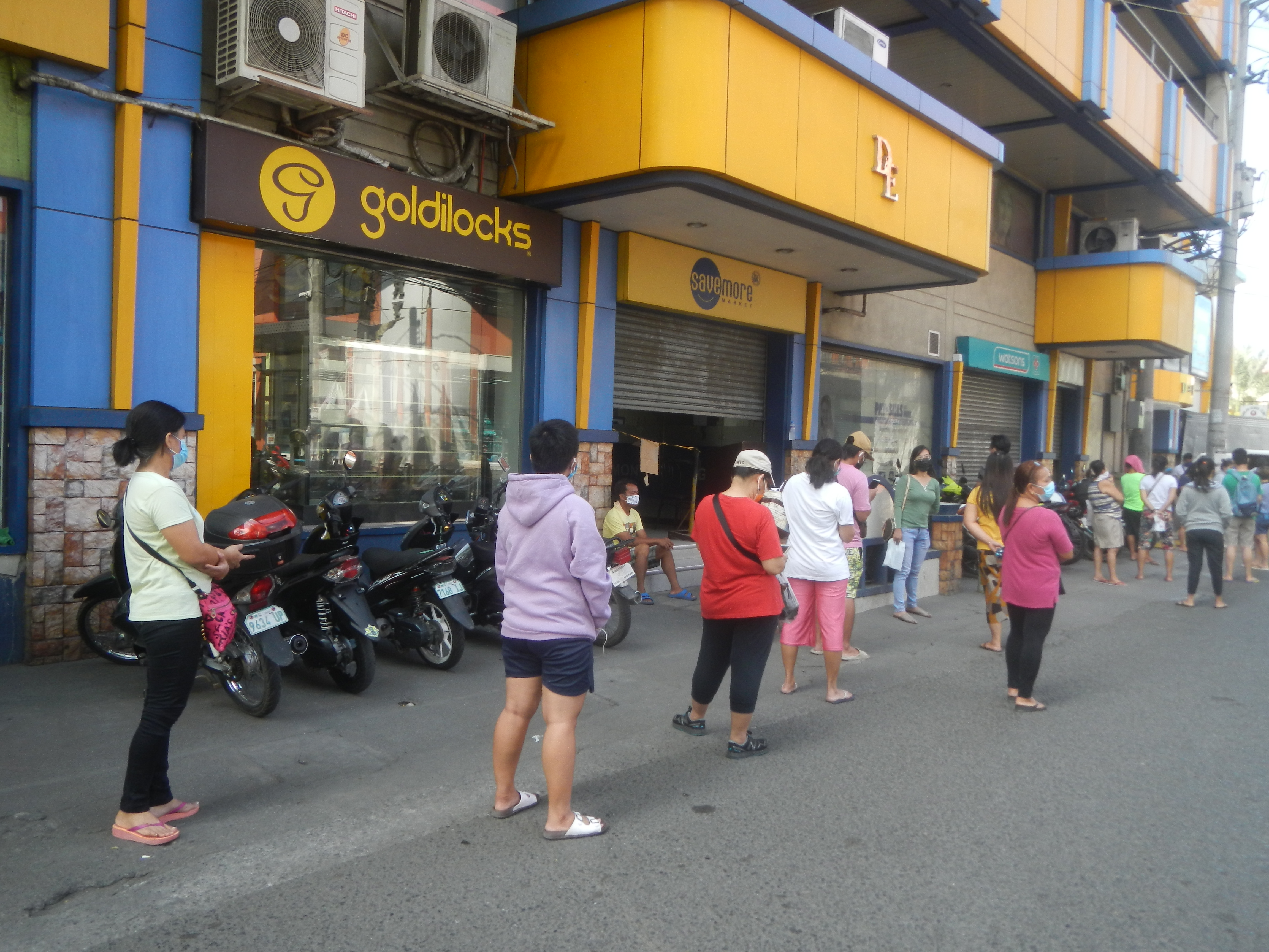 2020 coronavirus pandemic in Baliuag, Bulacan Timeline of the 2020 coronavirus pandemic in the Philippines 2020 coronavirus pandemic in the Philippines Bayanihan to Heal as One Act (RA 11469) Bayanihan Act of 2020. Signed on March 24, 2020 COVID-19 reach 2,084 – DOH March 31 Category:Sitios and puroks of the Philippines Subdivisions of the Philippines Barangays Poblacion 14°57'17"N 120°54'2"E and Santo Cristo 14.9522, 120.9259 , Baliuag, Bulacan, Bulacan province (Note: Judge Florentino Floro, the owner, to repeat, Donor FlorentinoFloro of all these photos hereby donate gratuitously, freely and unconditionally Judge Floro all these photos to and for Wikimedia Commons, exclusively, for public use of the public domain, and again without any condition whatsoever).